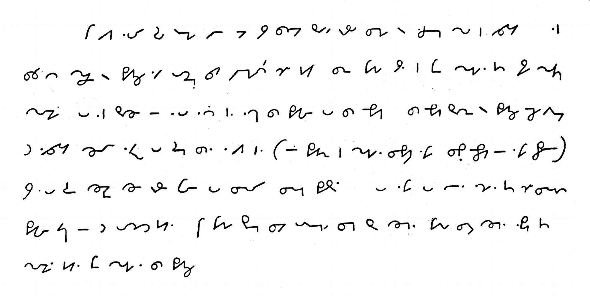 Text written in Samuel Taylor's shorthand system.